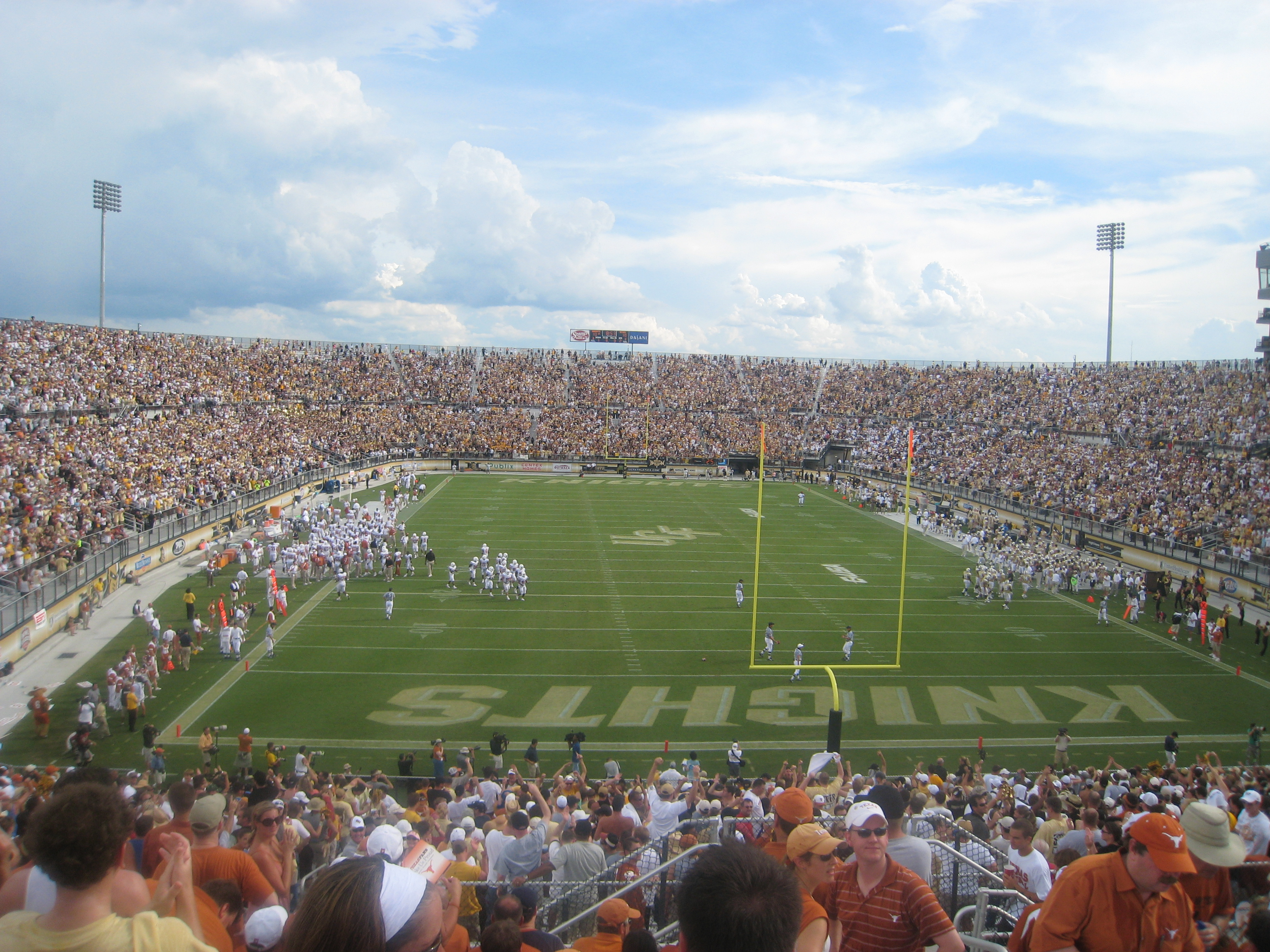 View from endzone. Bright House Networks Stadium. The field at Bright House Networks Stadium.